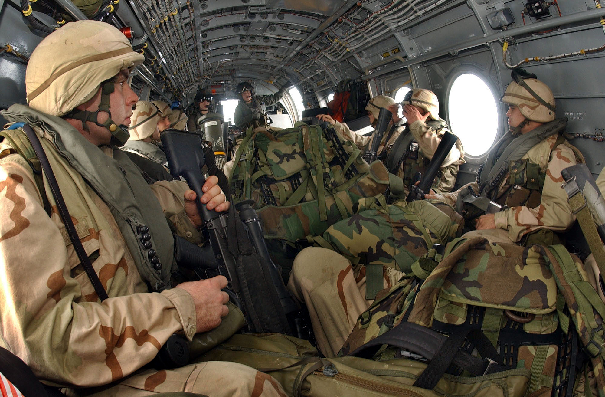 Operation Enduring Freedom (Dec. 14, 2001) -- U.S. marines assigned to the 26th Marine Expeditionary Unit (Special Operations Capable) deploy to an undisclosed location within Afghanistan aboard a CH-46E "Sea Knight" from aboard the amphibious command ship USS Bataan (LHD 5). The Bataan Amphibious Ready Group is deployed in support of Operation Enduring Freedom.